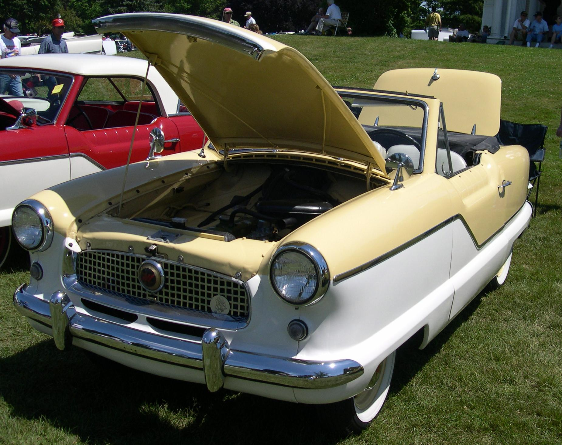 Nash Metropolitan Series 3 Source: Photographed at the Bay State Antique Automobile Club's July 10, 2005 show at the Endicott Estate in Dedham, MA by User:Sfoskett